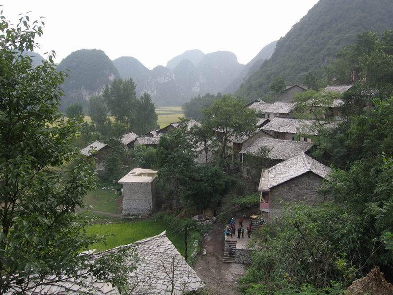 Bouyei minority Shitou village, west Guizhou (near Longgong caves), China. Taken by Ariel Steiner.